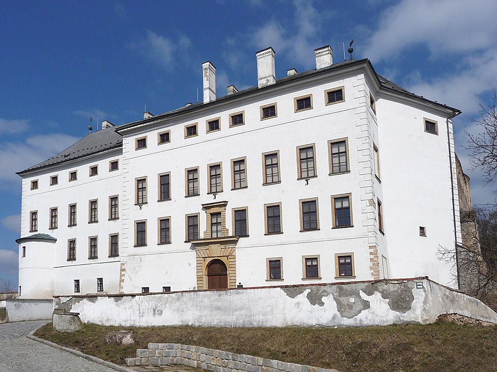 Usov Castle, Czech Republic